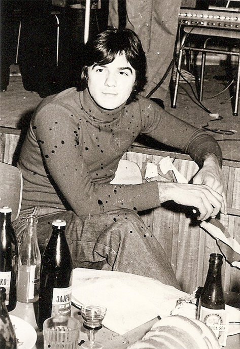 Zdravko Čolić in Požarevac in the early or mid-1970s.